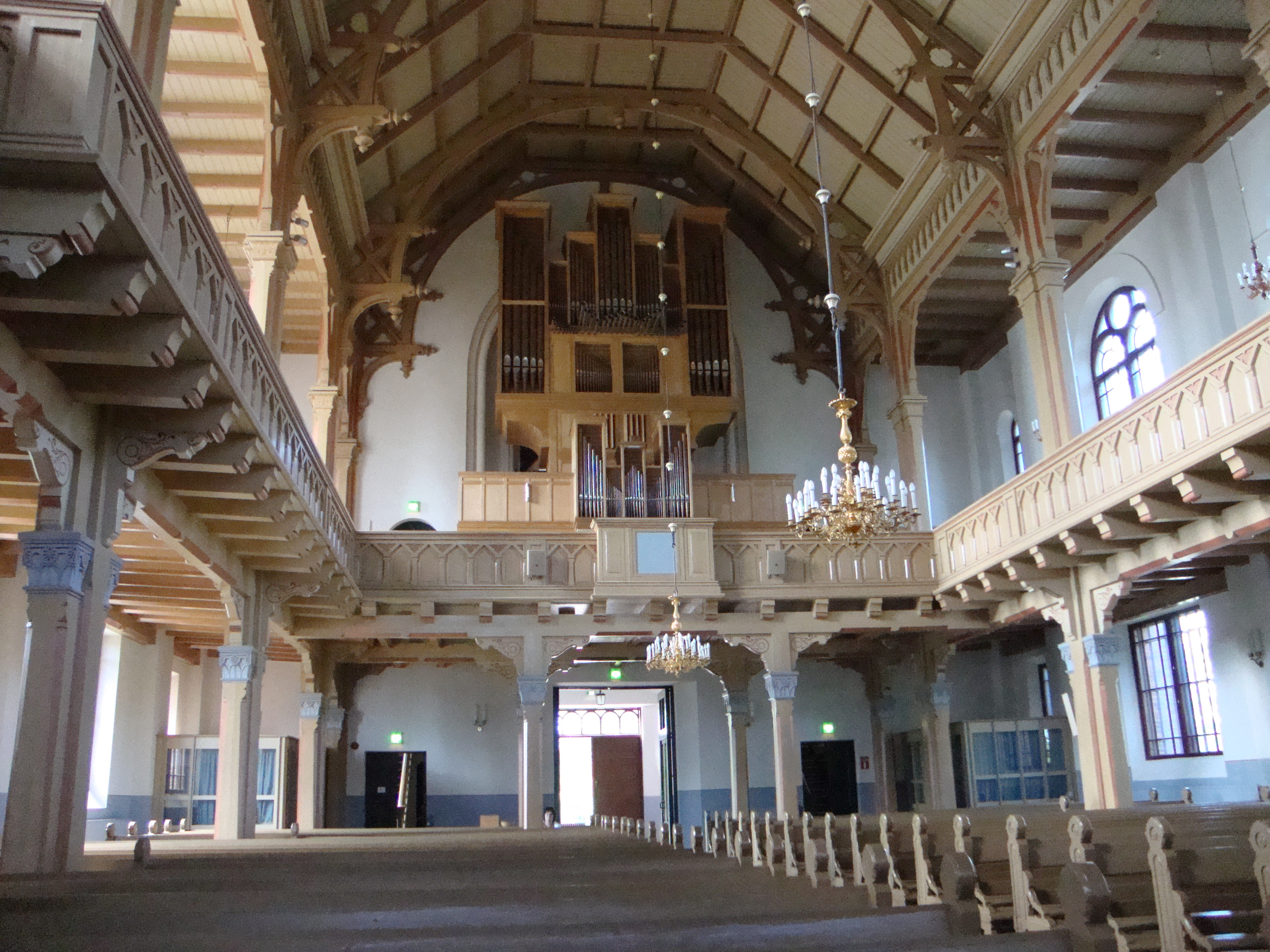 Sipoo church, built in 1883-1885 - Interior